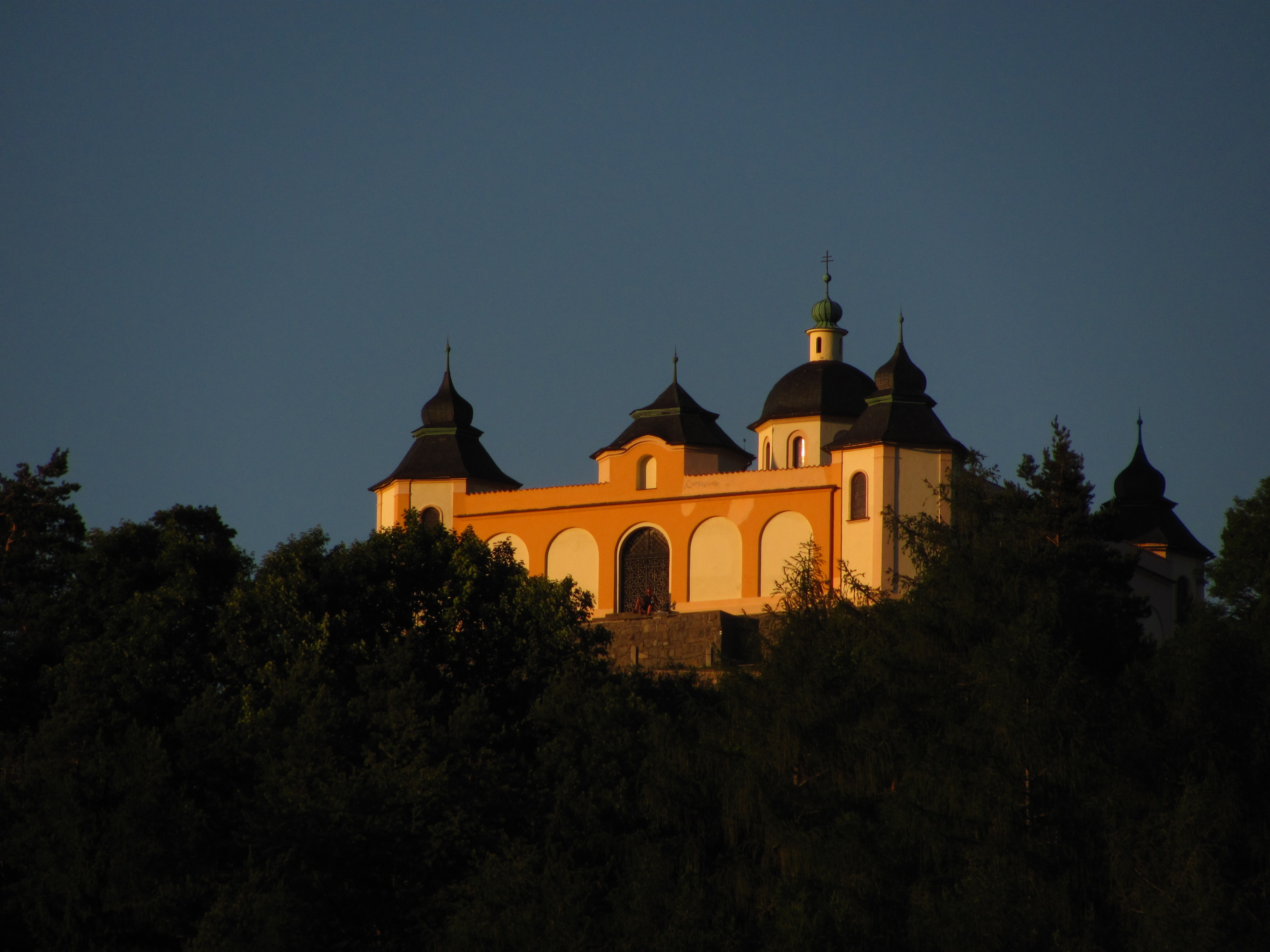 Chapel of Holy Guardians Angels, Sušice, Czech Republic